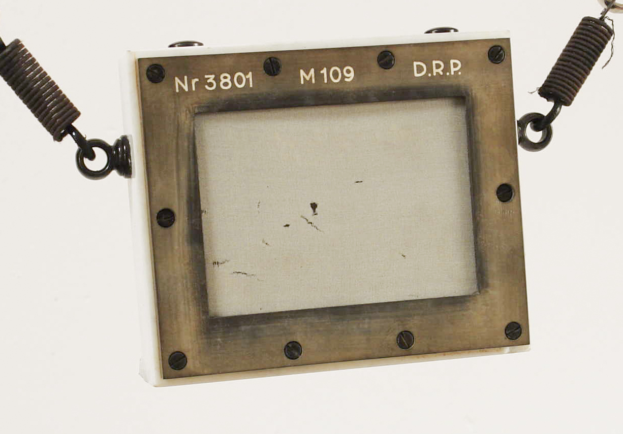 Reisz Mikrophone